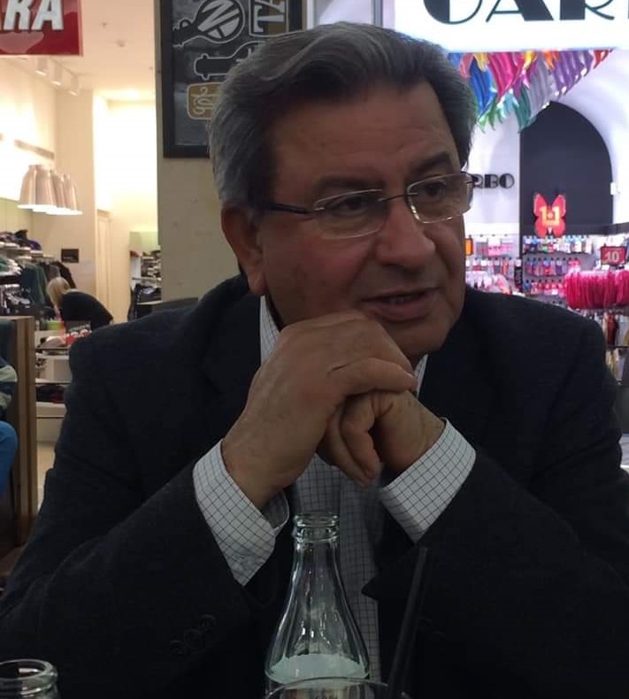 picture of Prof. Qadi Ahmad Natour